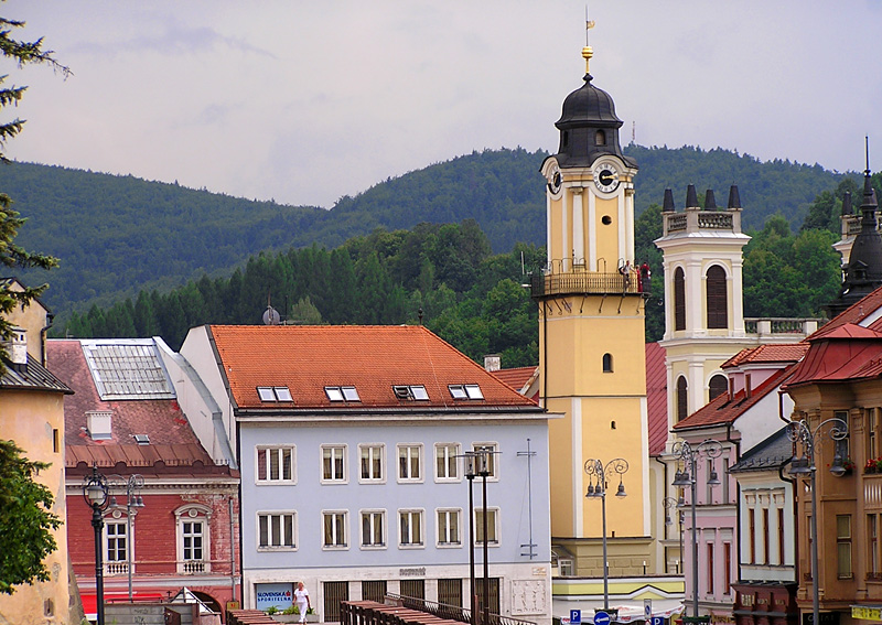 Banská Bystrica - Urpín and 1552 Clock Tower